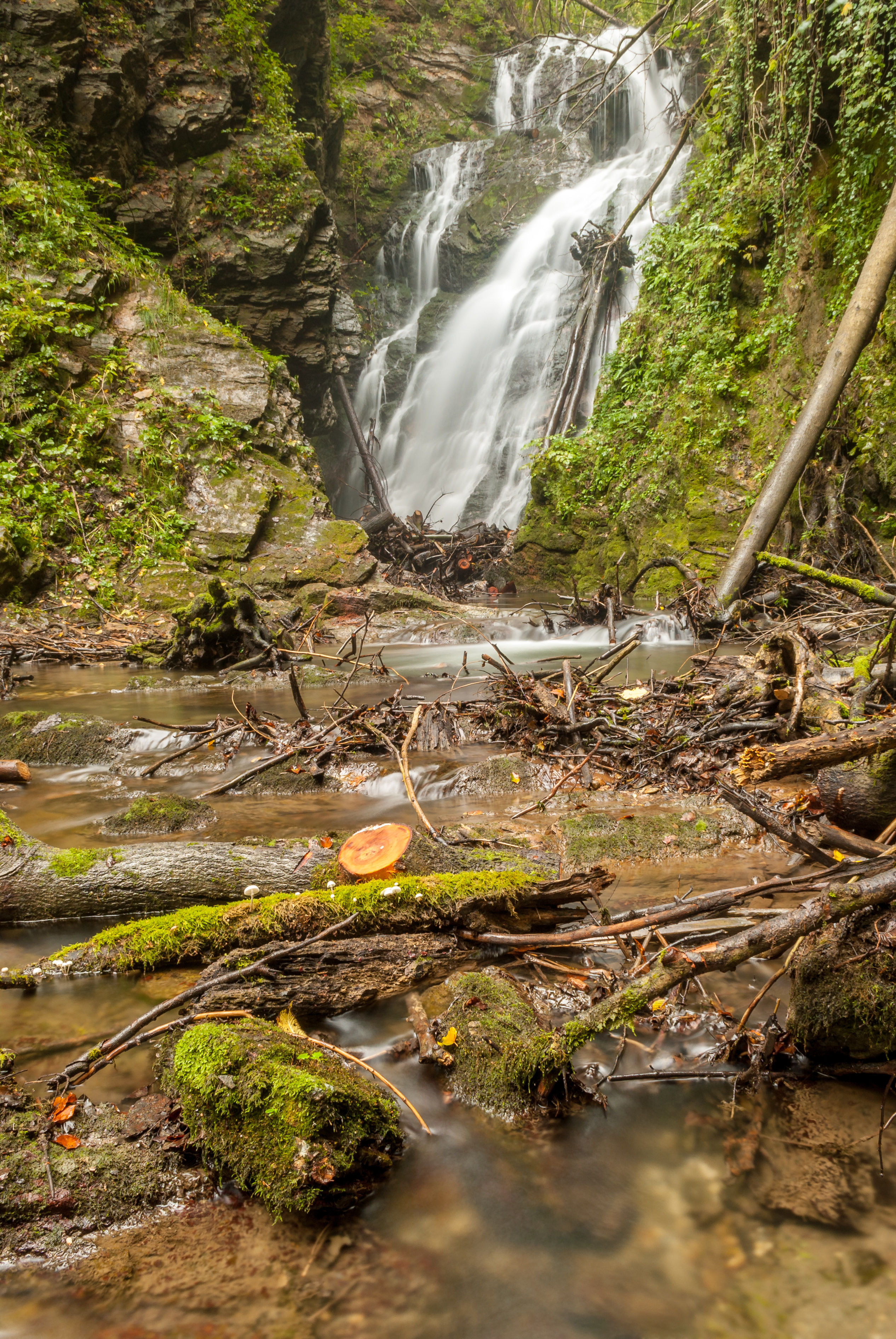 Šum waterfall on Nemiljščica streem